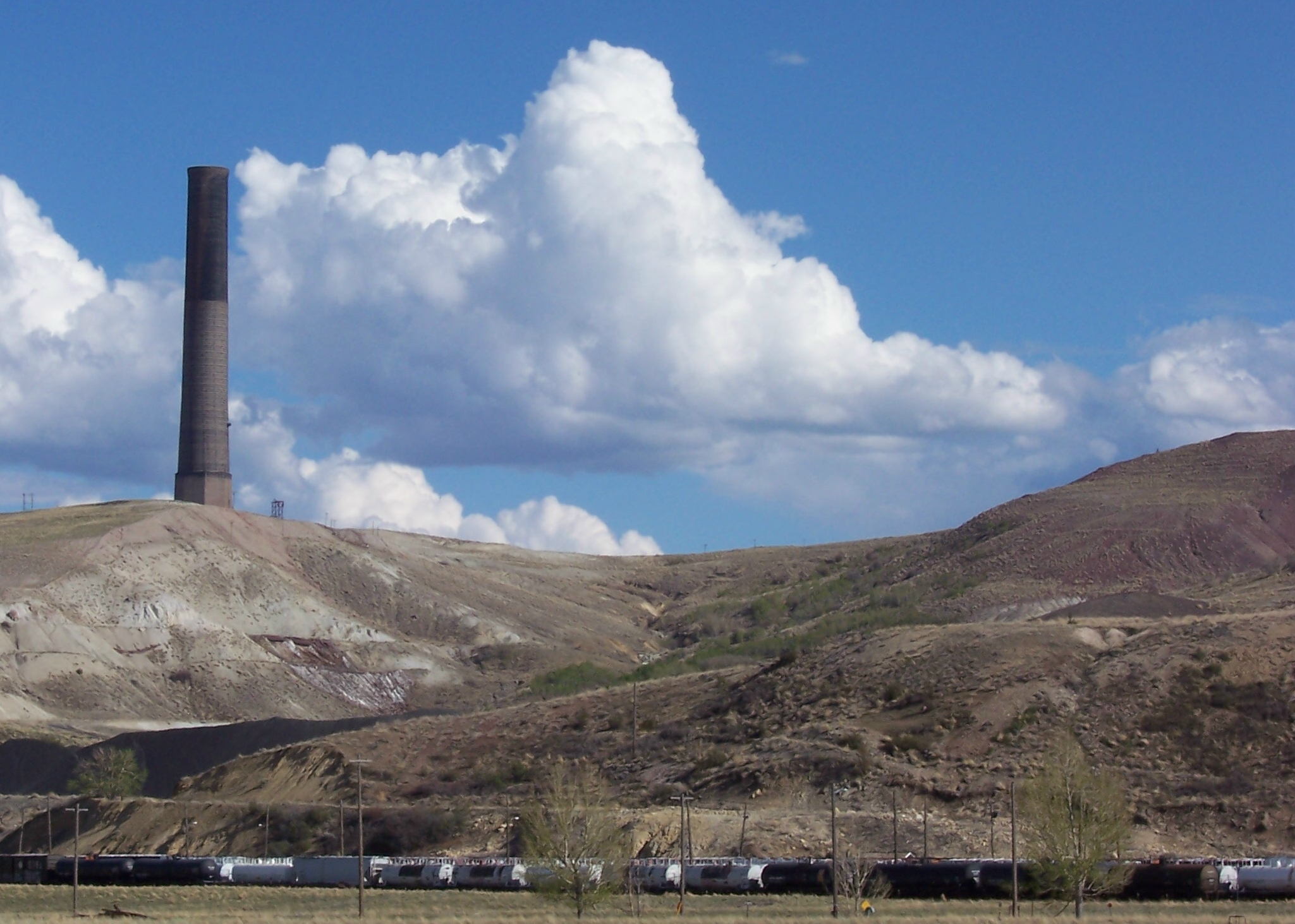 Anaconda smelter stack. Notice the railroad cars along the bottom edge.